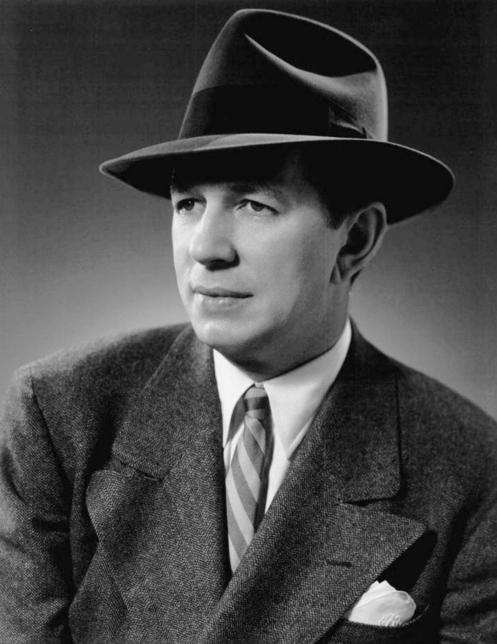 Photo of sports broadcaster Bob Elson.